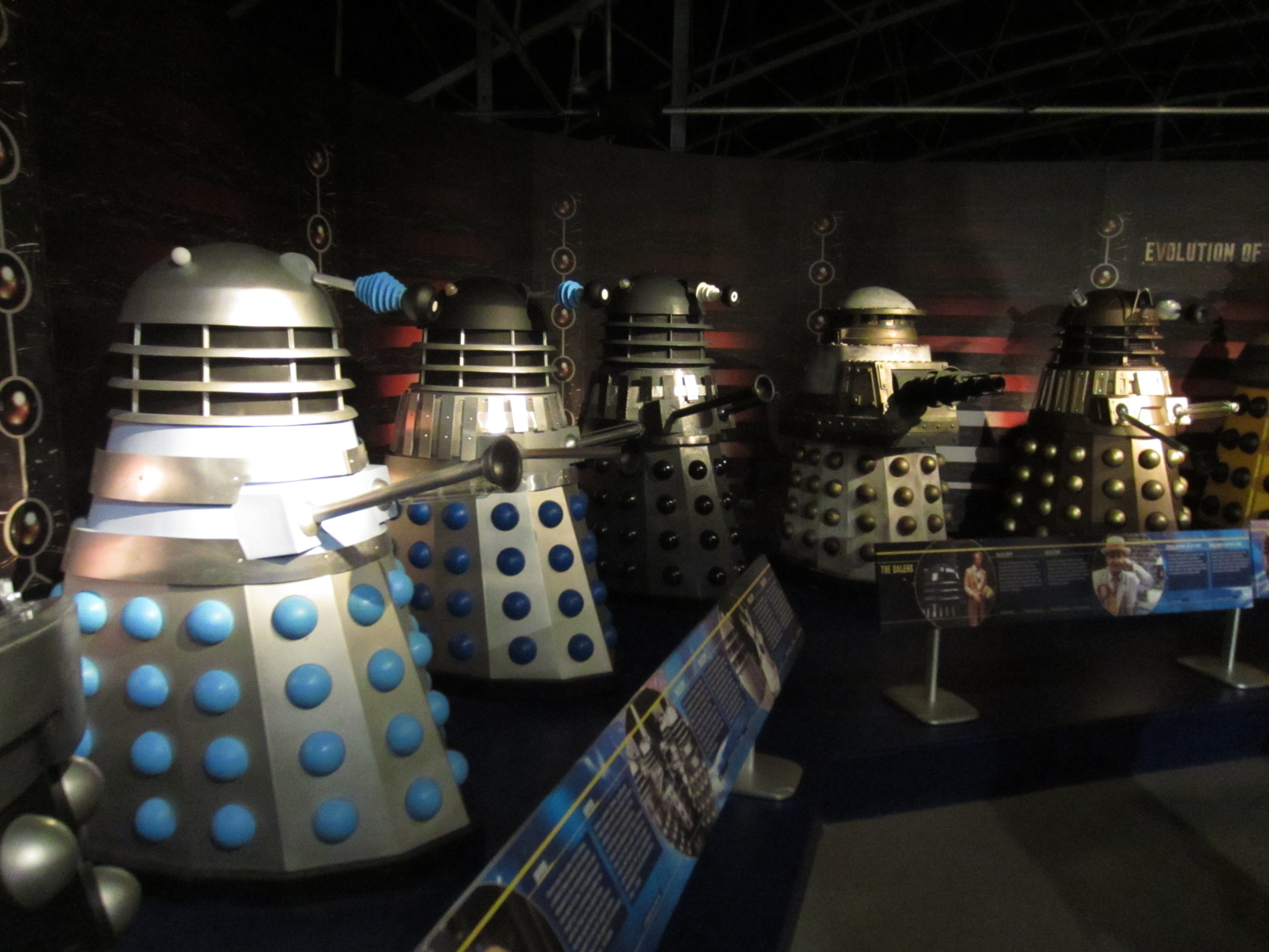 Costumes and prop from Doctor Who, displayed at the Doctor Who Experience in Cardiff.